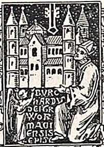 Bischof Burchard I. von Worms und der Wormser Dom, Illustration aus Beiträge zur Geschichte der Stadt Worms, von Hans Soldan, 1896, S. 45